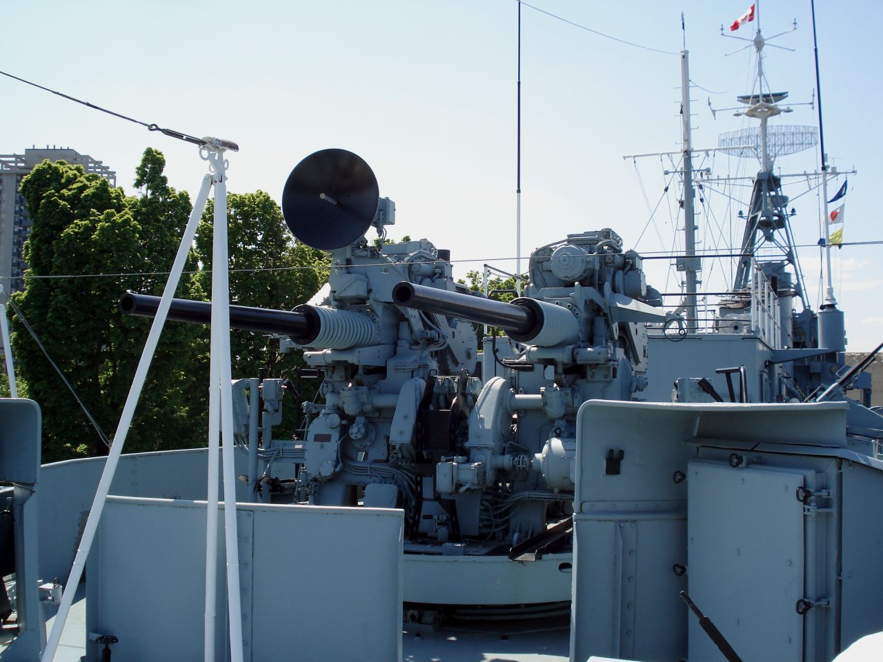 3 inch Mark 33 twin anti-aircraft gun on HMCS Haida